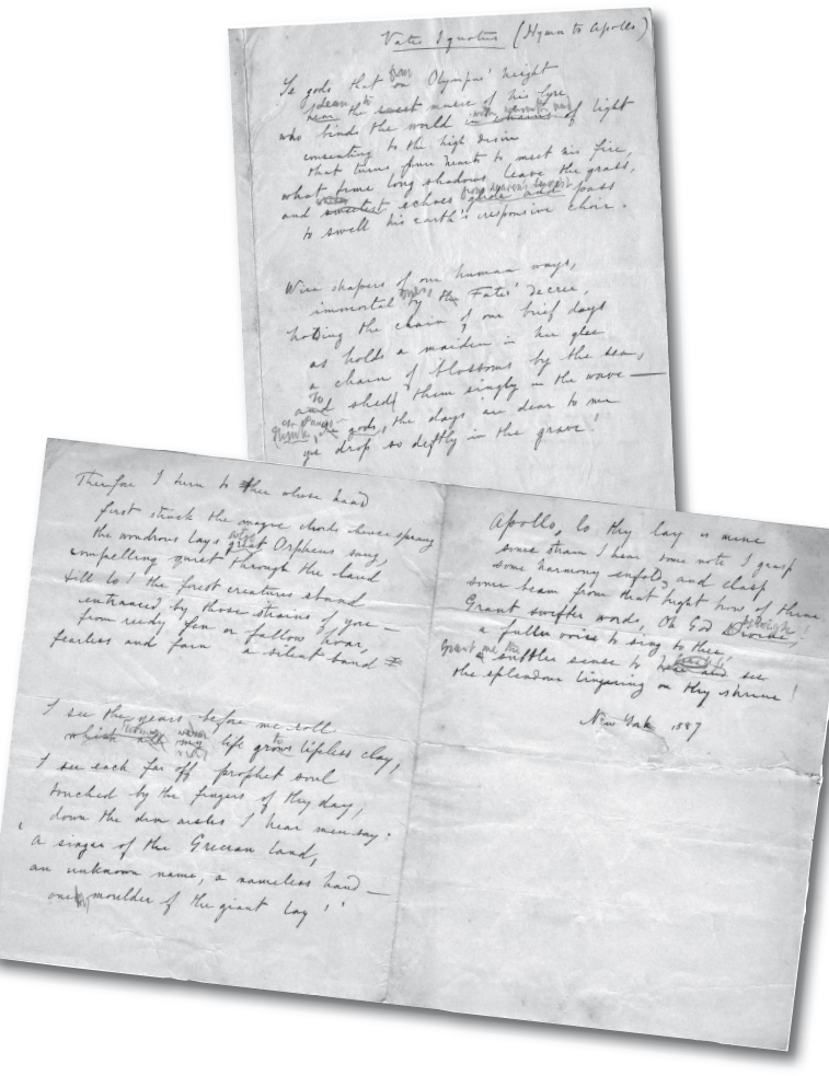 Manuscript version of "Vates Ignotus" poem by Caroline Fitzgerald, 1887. This is the first poem in the book Fitz Gerald, Caroline (1889). Venetia Victrix and Other Poems. Macmillan & Co accessible at